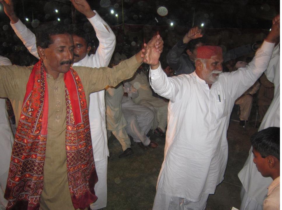 Saraiki Tradition Jhumar